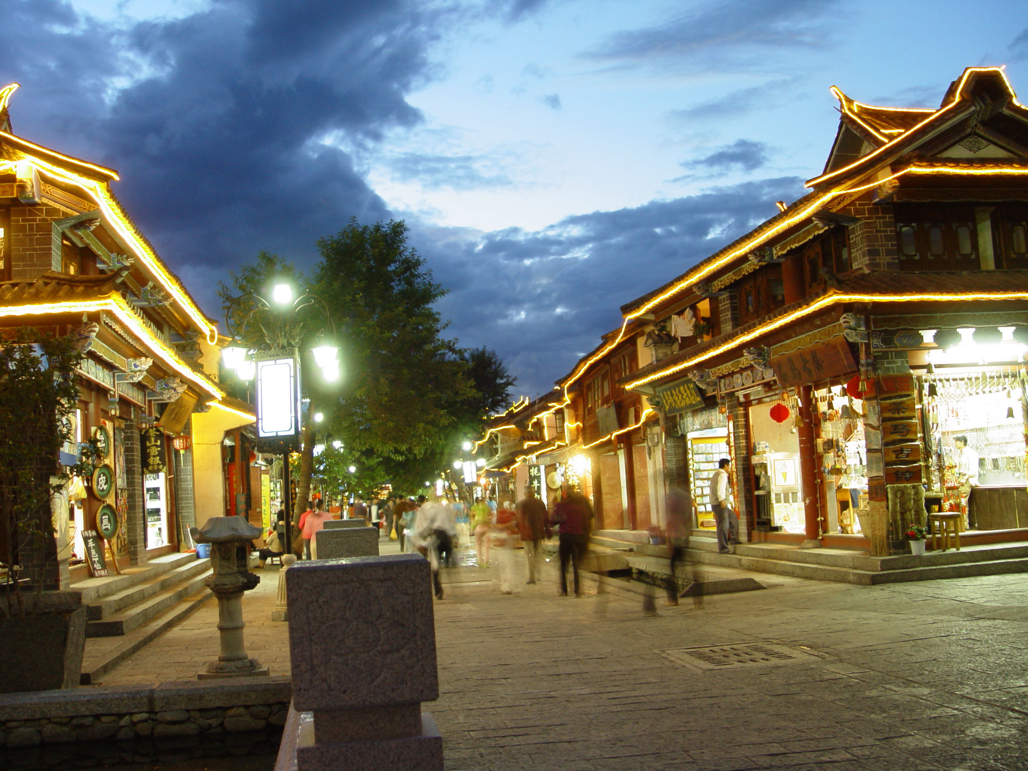 Dali, Yunnan province, China Author: Jian Qiu